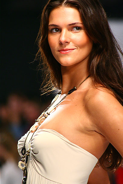 Brazillian model Daniella Sarahyba at the XIII Crystal Fashion-Curitiba.